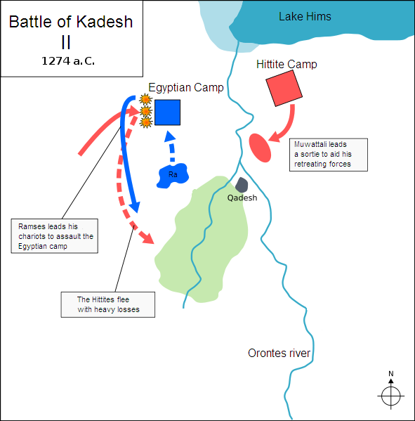 Battle of Qadesh - Second phase (English)